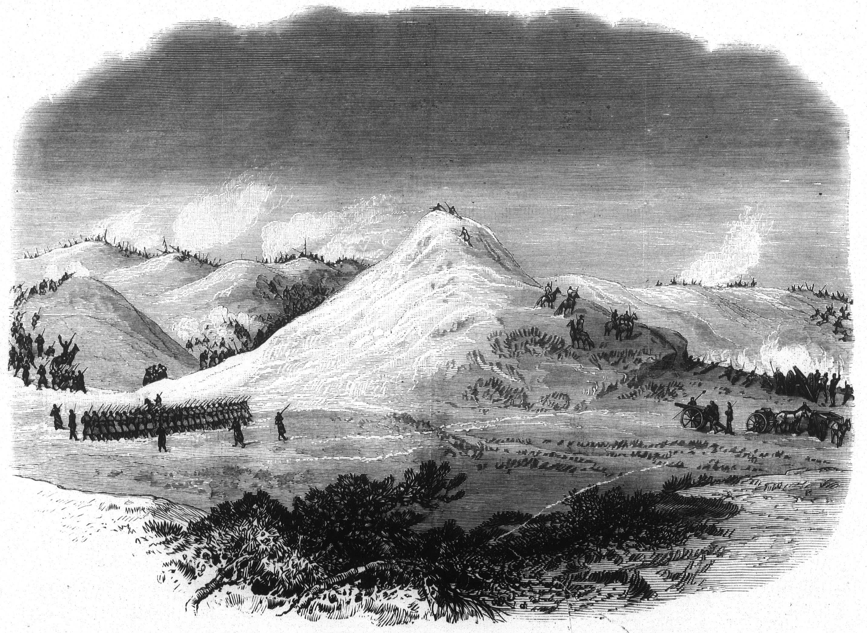 Native American (Sioux and Cheyenne) and white men participate in the Battle of Wolf Mountain in Montana. A howitzer stands near a cliff edge in position to fire upon the Native Americans.